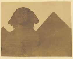 The Great Pyramid and Sphinx, Gizeh, Egypt, circa 1852. Photographed by Leavitt Hunt. Calotype print (salted paper print). The series of original calotypes taken by Leavitt Hunt were donated to the Library of Congress, Washington, D.C., by Maud Hunt (Mrs. William E. Patterson) in 1947. Inscribed: "....Leavitt Hunt went up the Nile in 1852 to take these first photographs ever taken of pyramids, tombs, etc., in Egypt..."